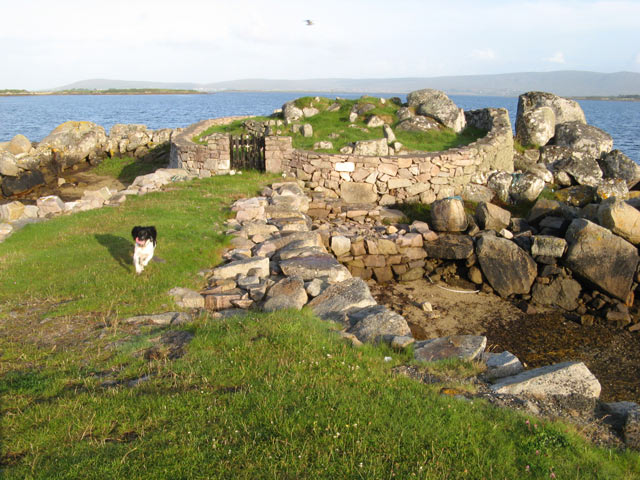 Cillin at the shore This neatly-walled area is a cillin, a burial ground for those who are unbaptised - typically children. This is an extraordinarily beautiful site, on the edge of one of the wider parts of the bay. A short causeway crosses to the rocky eminence which would be an island otherwise. A small cemetery is just to the southwest on a slope to the shore.